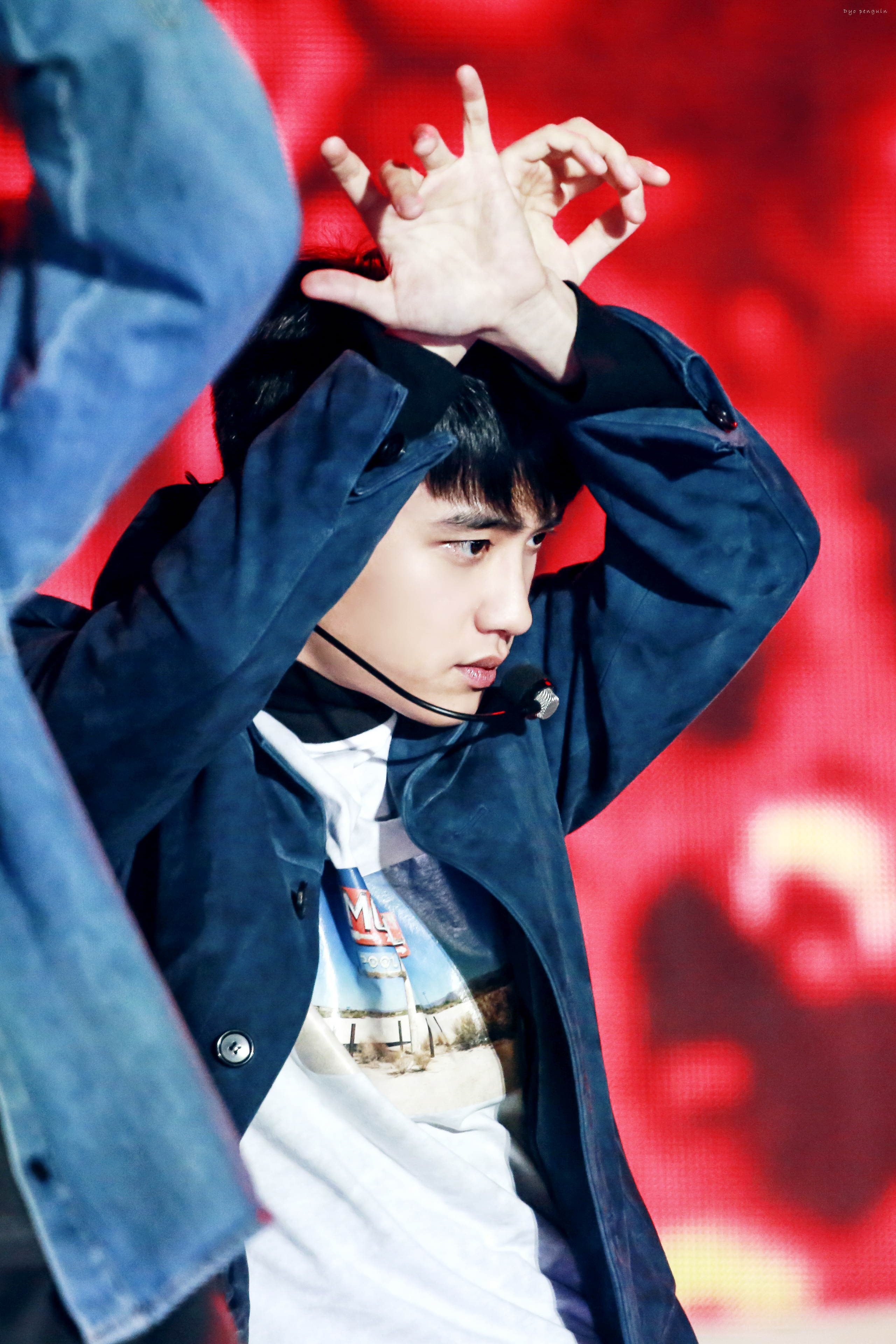 D.O at the Busan One Asia Festival on October 20, 2018.